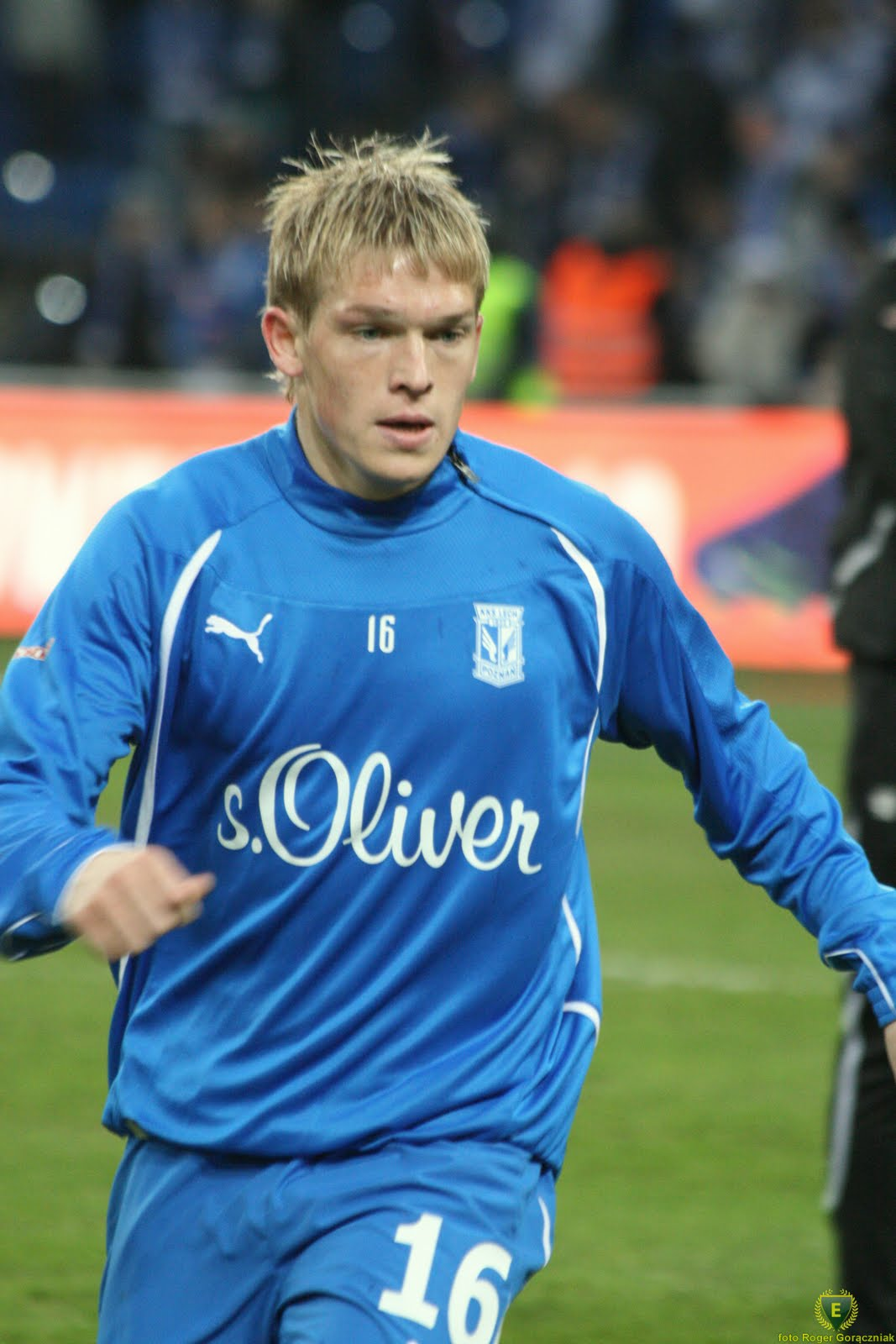 Artjoms Rudņevs, latvian football player.